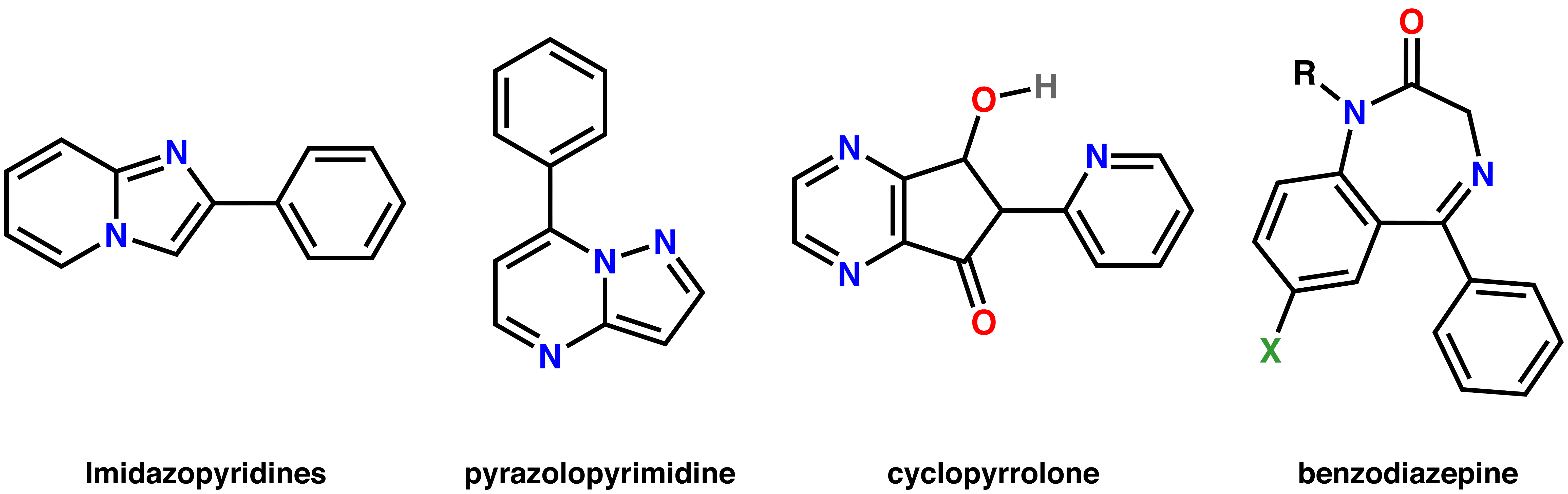 Created myself using CambridgeSoft ChemDraw